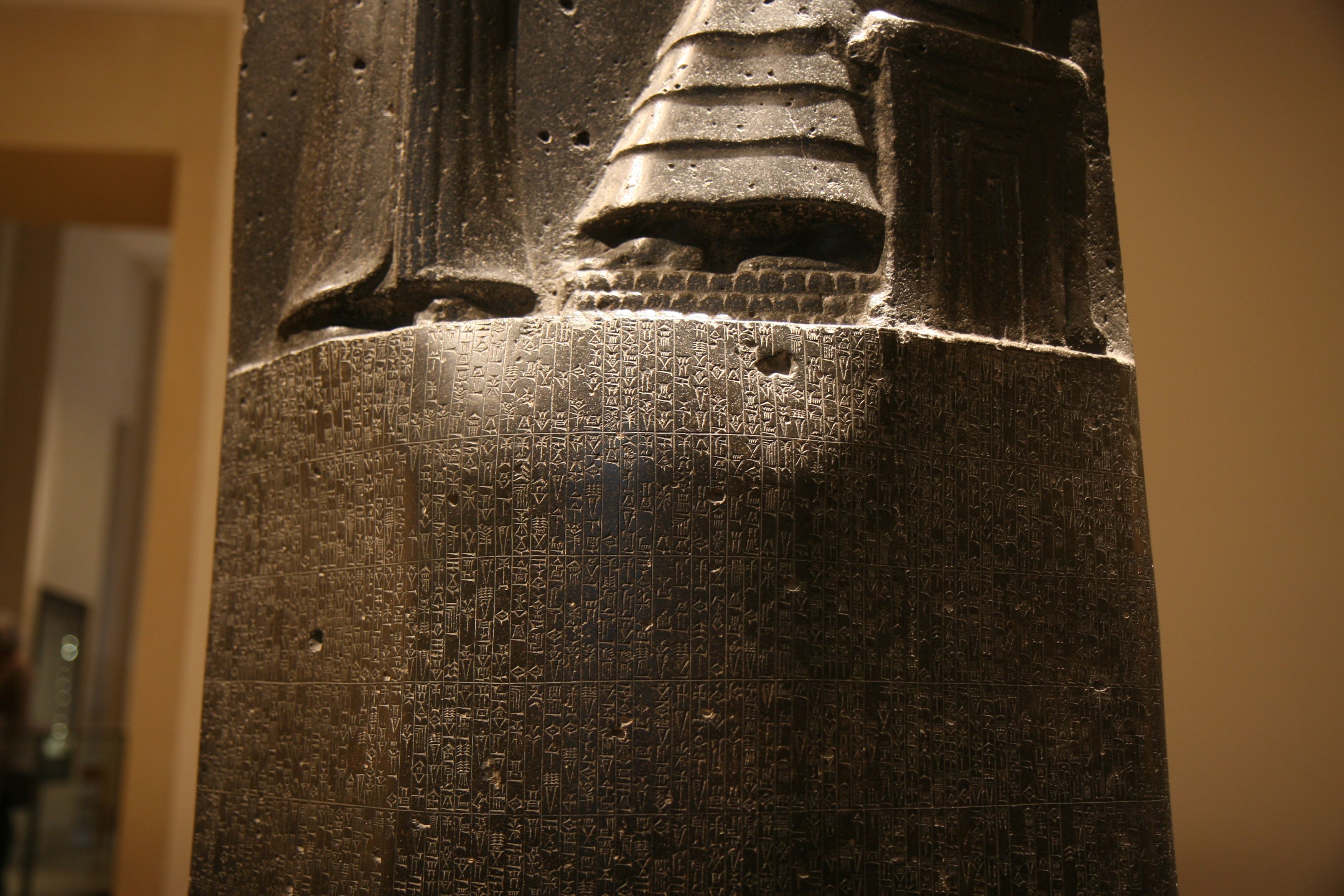 Code of Hammurabi